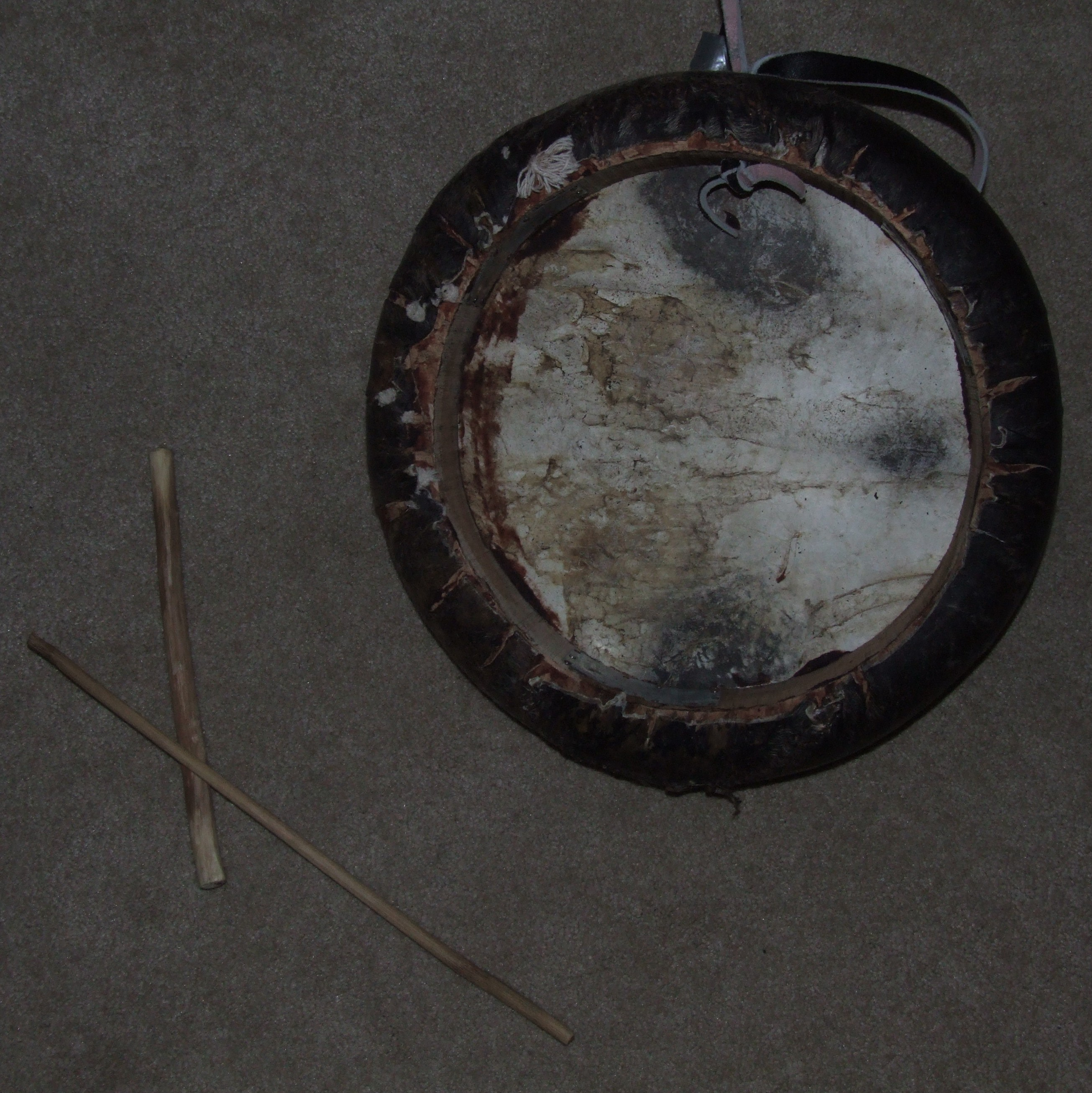 Back side of Parai with the sticks used to play the instrument